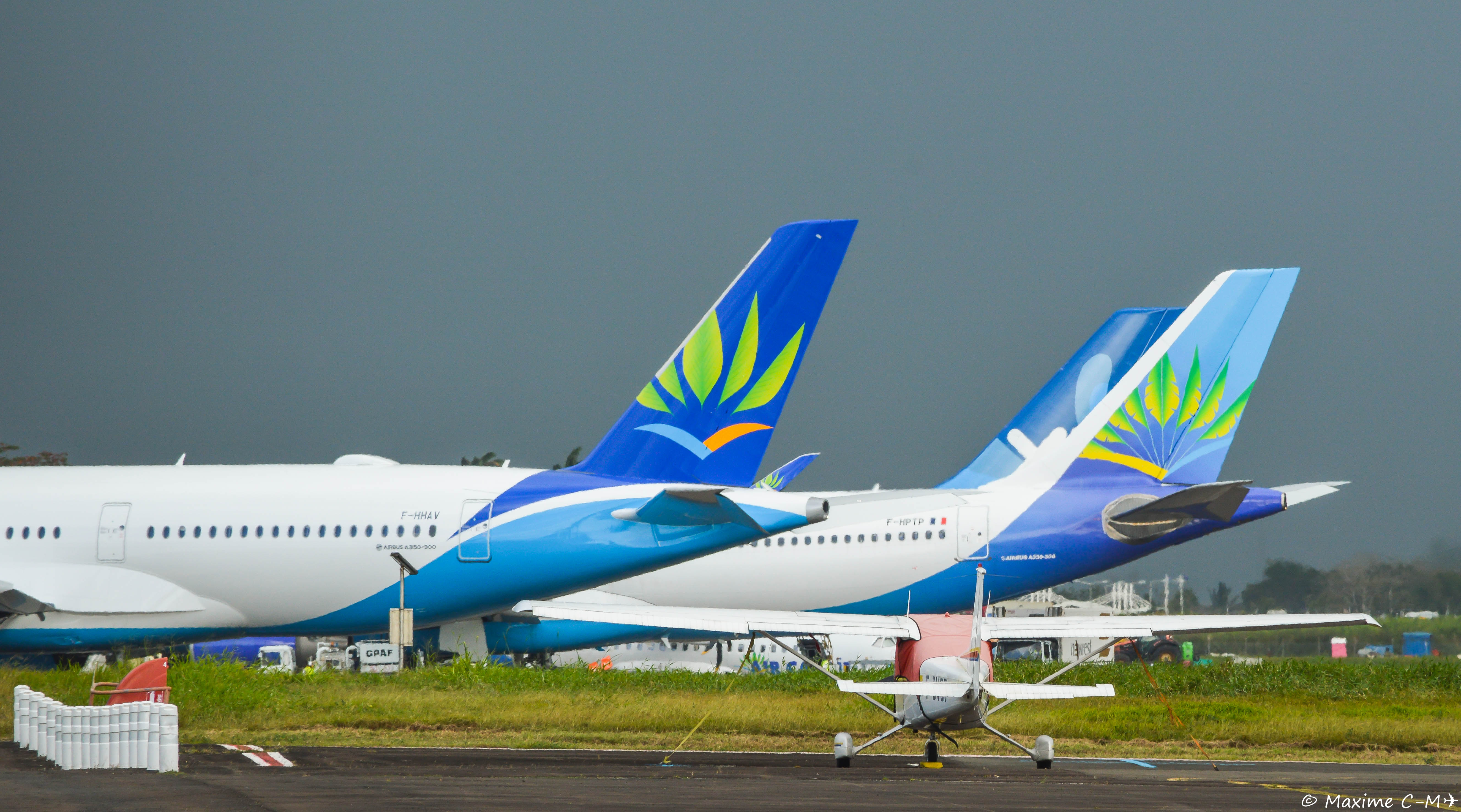 F-HHAV 🇫🇷 - Airbus A350-941 F-HPTP 🇫🇷 - Airbus A330-323 Air Caraïbes 🇫🇷 TFFF / FDF 🇲🇶